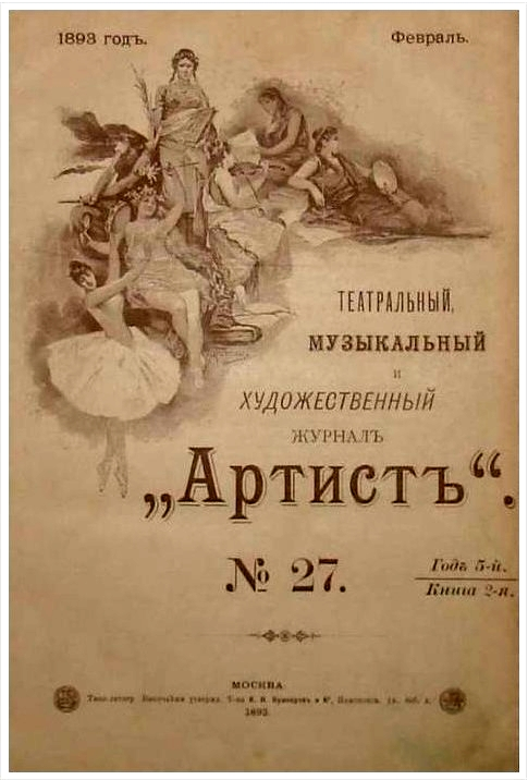 Russian theatrical, musical and art magazine «Artist» № 27 February 1893. (Published in Moscow in 1889—1895 years.)